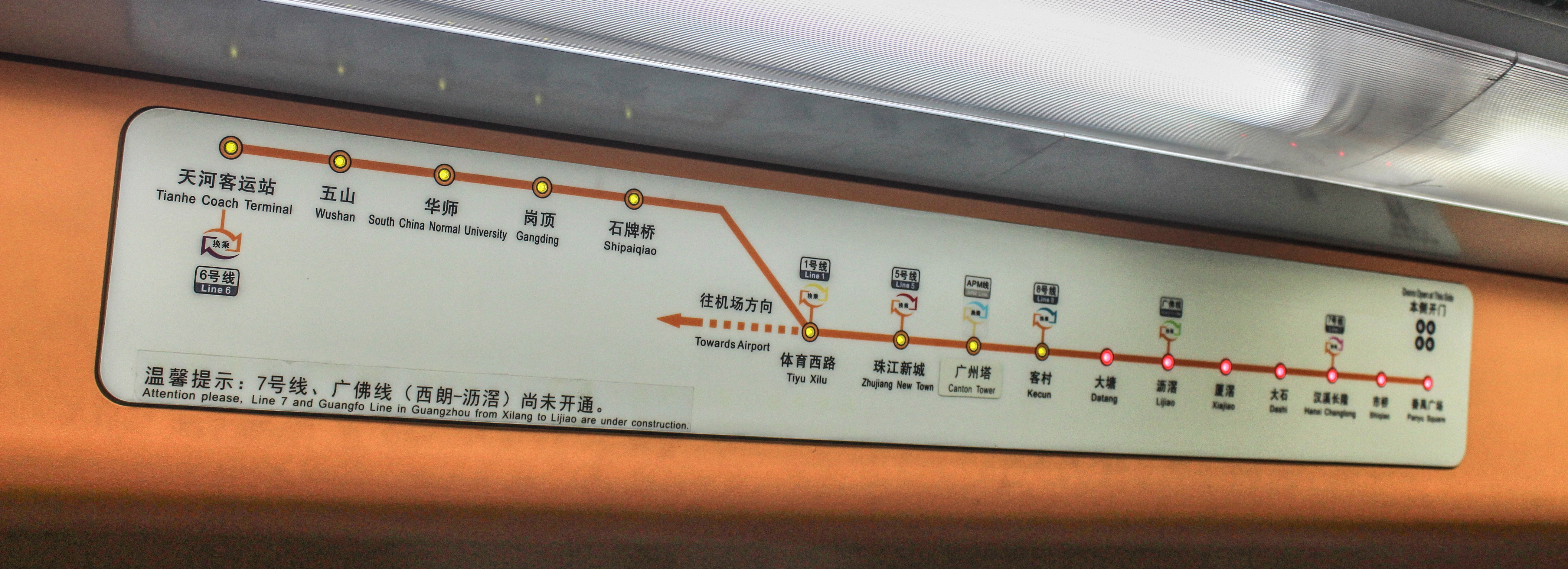 Guangzhou Metro L3-CSR B1 Train Map